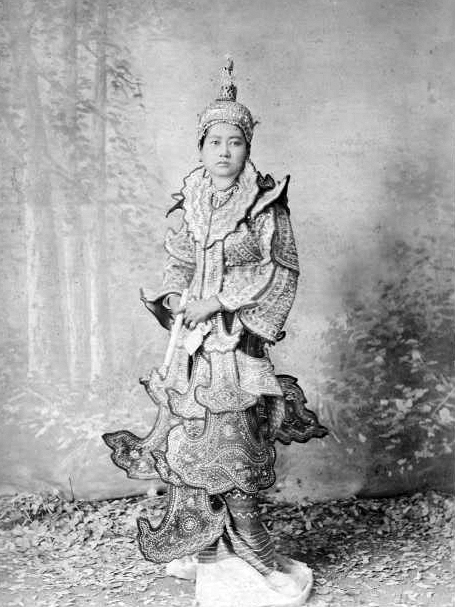 Burmese princess in court costume.